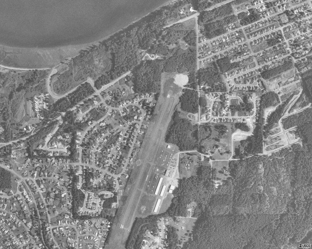 USGS digital orthophoto of Anacortes Airport (FAA: 74S) in Anacortes, Washington, United States.